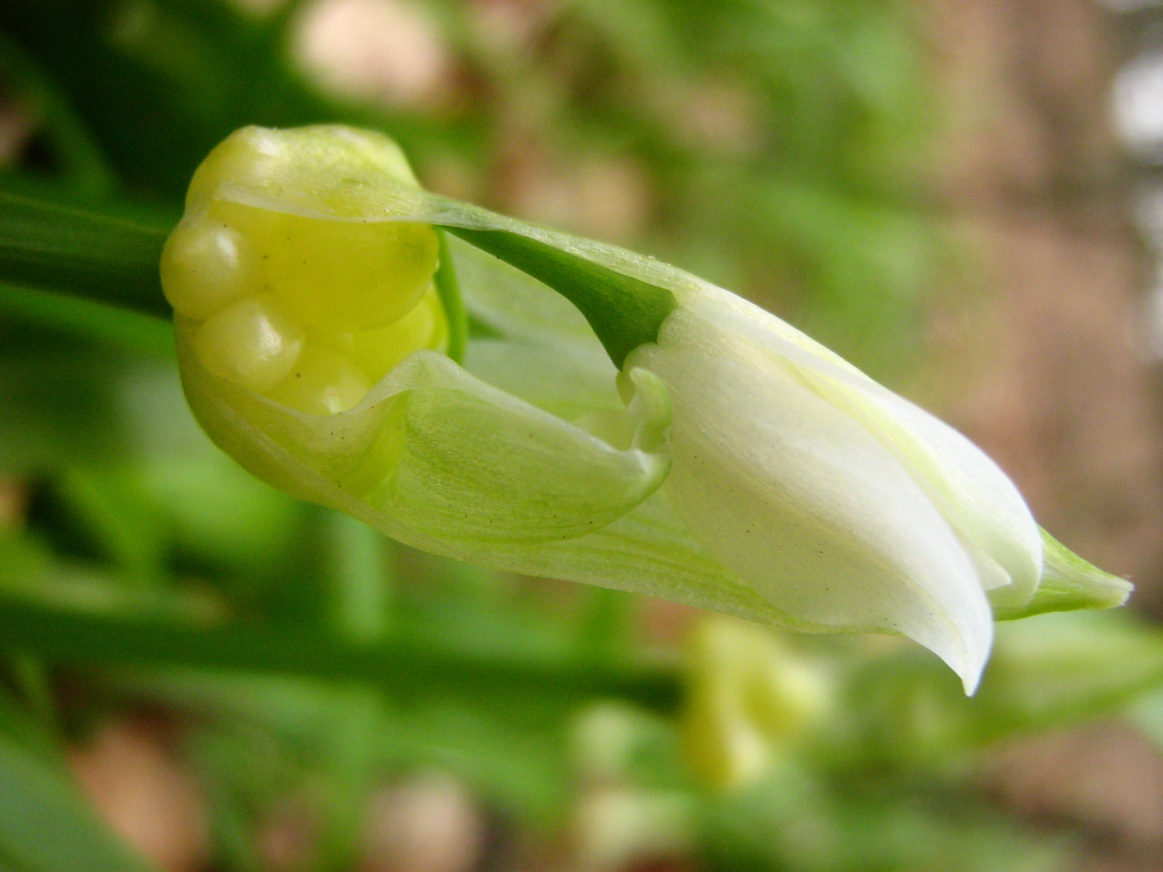 Allium paradoxum with aerial bulbs development (in the forest near Lake Stechlinsee in Brandenburg district, Germany).